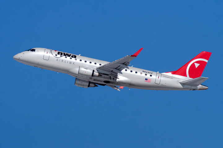 A Northwest Airlink (Compass Airlines) Embraer E170-200LR shortly after takeoff from Minneapolis-Saint Paul International Airport on February 28, 2009.